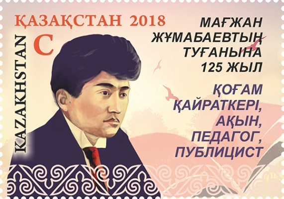 1101. Memorable and anniversary dates. The 125th anniversary of the birth of Magzhan Zhumabayev